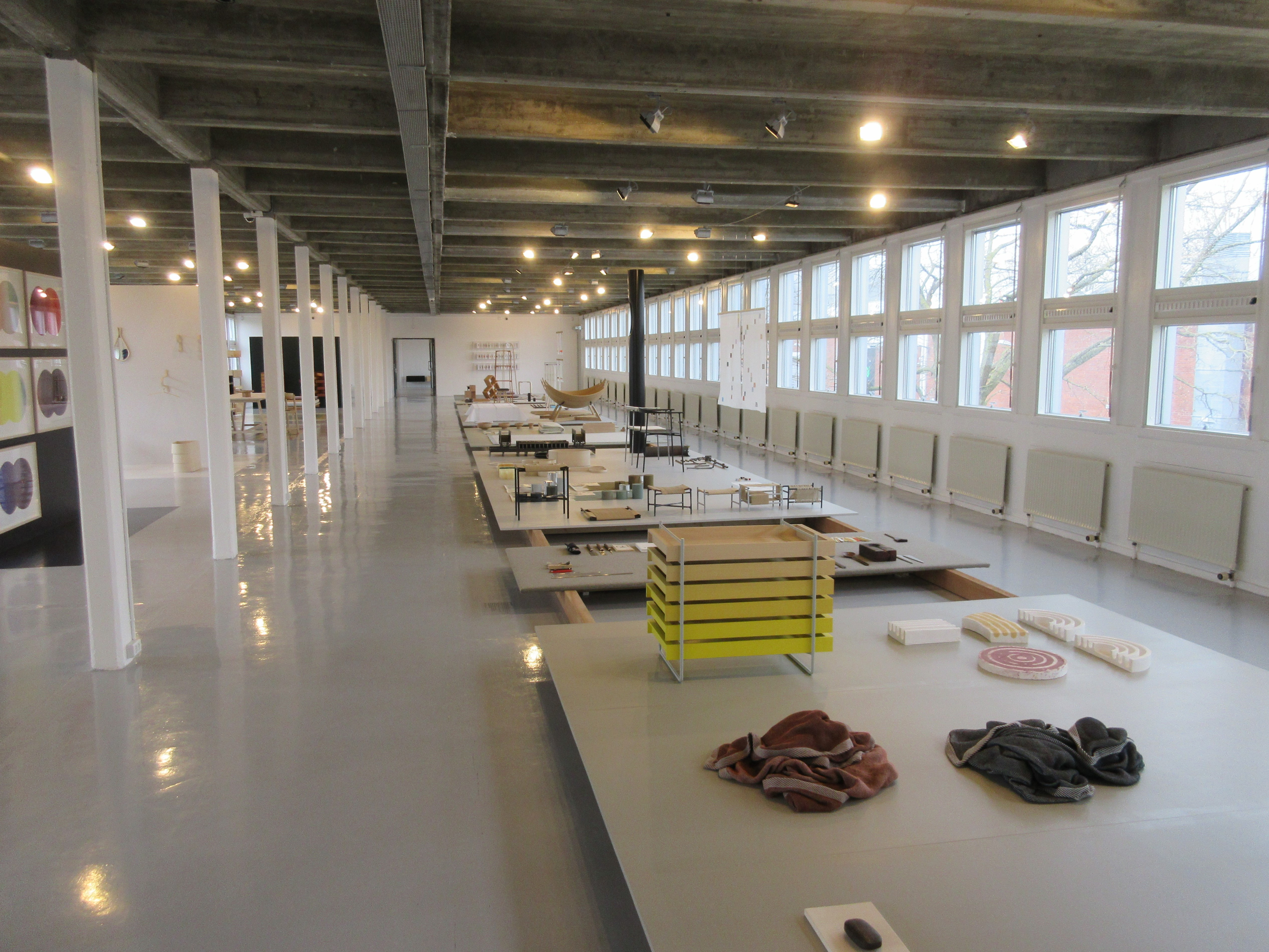 The exhibition space on the first floor in A. Petersen's building at Kløvermarksvej 70 in Copenhagen, Denmark.